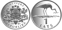 1 Lats Latvia - Stork Obverse: The large coat of arms of the Republic of Latvia, with the year 2001 inscribed below, is placed in the centre. The inscriptions LATVIJAS and REPUBLIKA, each arranged in a semicircle, are above and beneath the central motif, respectively. Reverse: A nesting stork is featured in the upper part of the coin. The numeral 1, with the inscription LATS in a semicircle beneath it, is centred in the lower part. Edge: Two inscriptions LATVIJAS BANKA (Bank of Latvia), separated by rhombic dots.